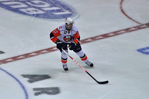 Thomas Pöck, playing for the New York Islanders.